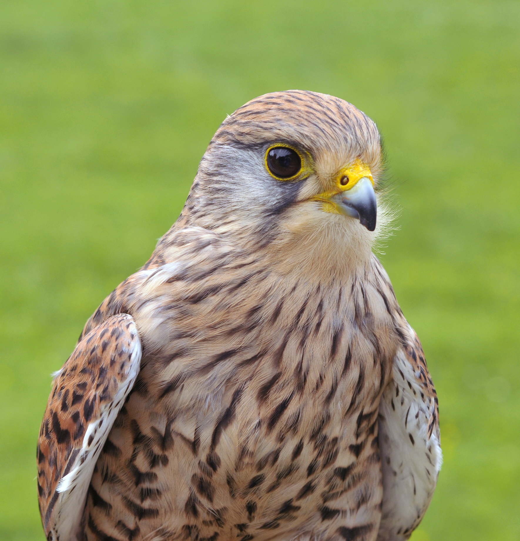 Common Kestrel (Falco tinnunculus) in the Neuhaus game park near Holzminden, district Holzminden, Lower Saxony, Germany.